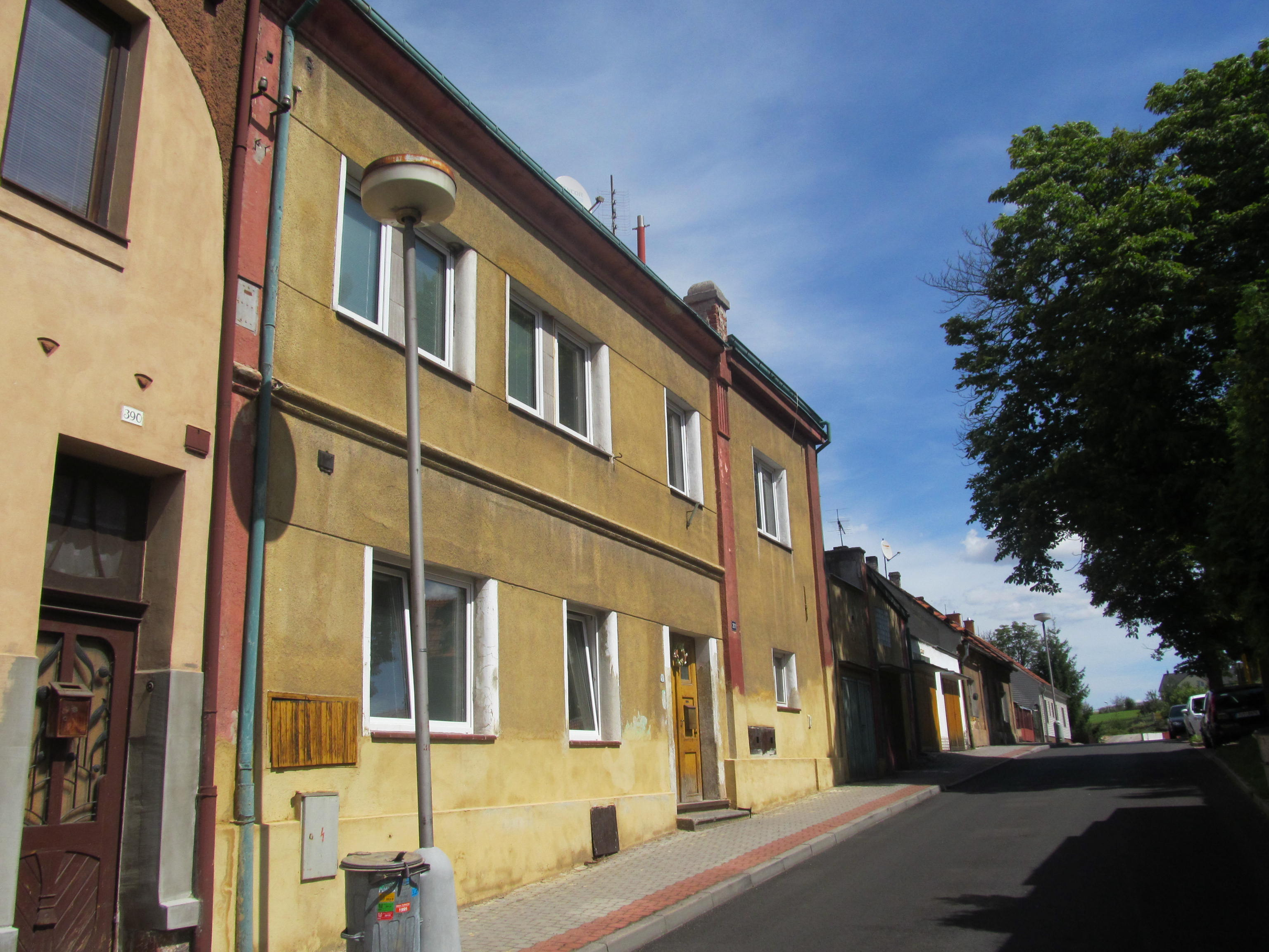 House No 201 in Podbořany, place of former synagogue.